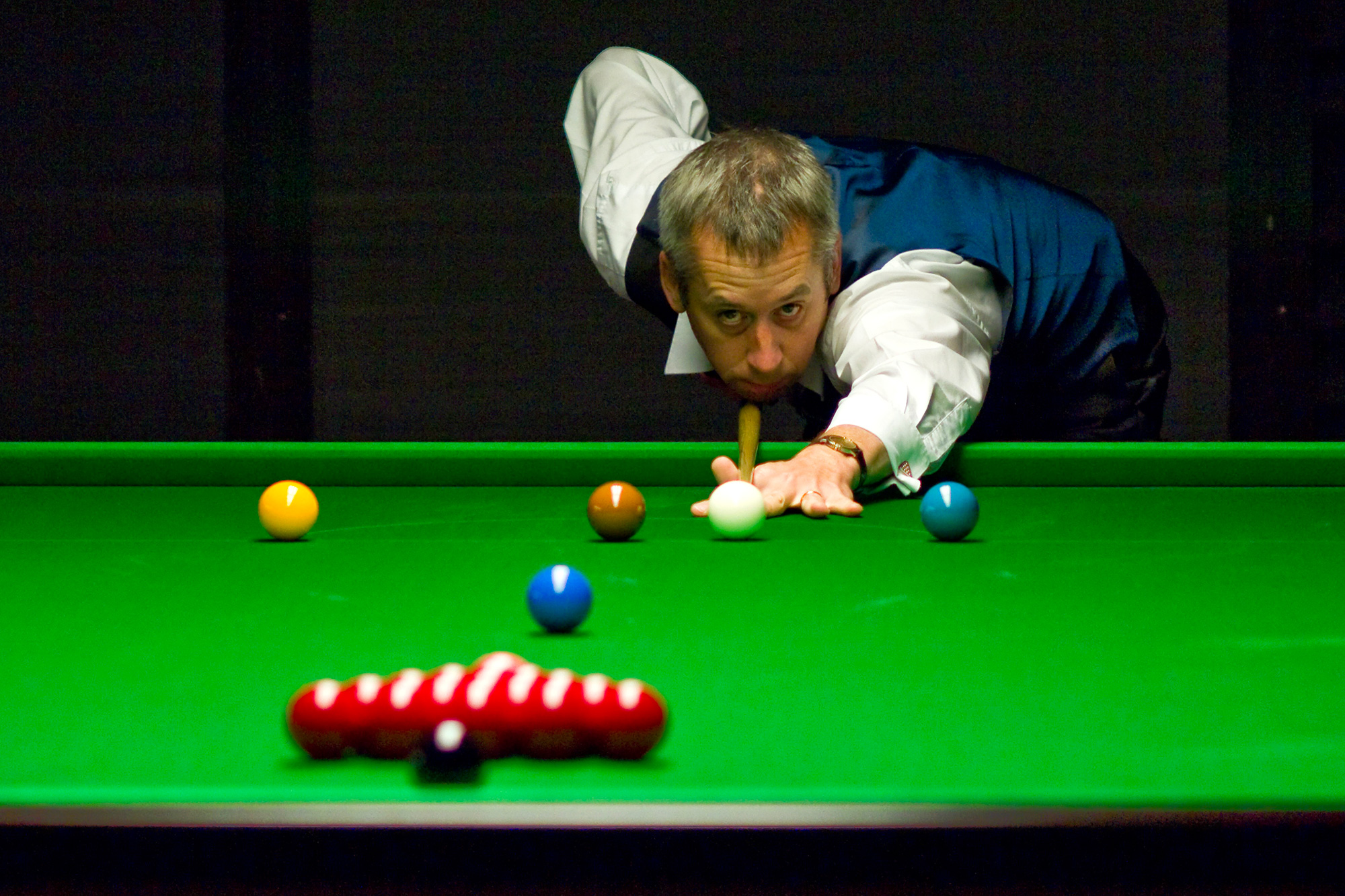 Nigel Bond at the Paul Hunter Classic 2011